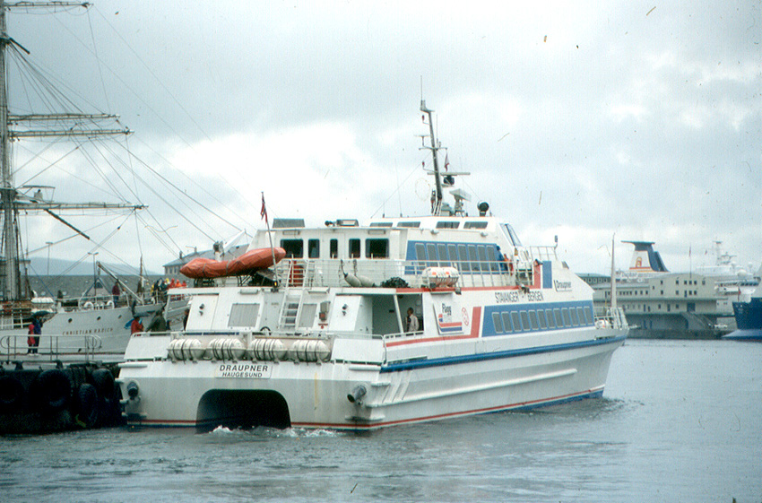 I could have taken a high-speed catamaran like this from Flåm back to Bergen. Instead, I took a slow boat to Gudvangen, with a bus and train ride afterward. That was a more rewarding trip. I looked inside this ship. It had a cabin like an airplane.